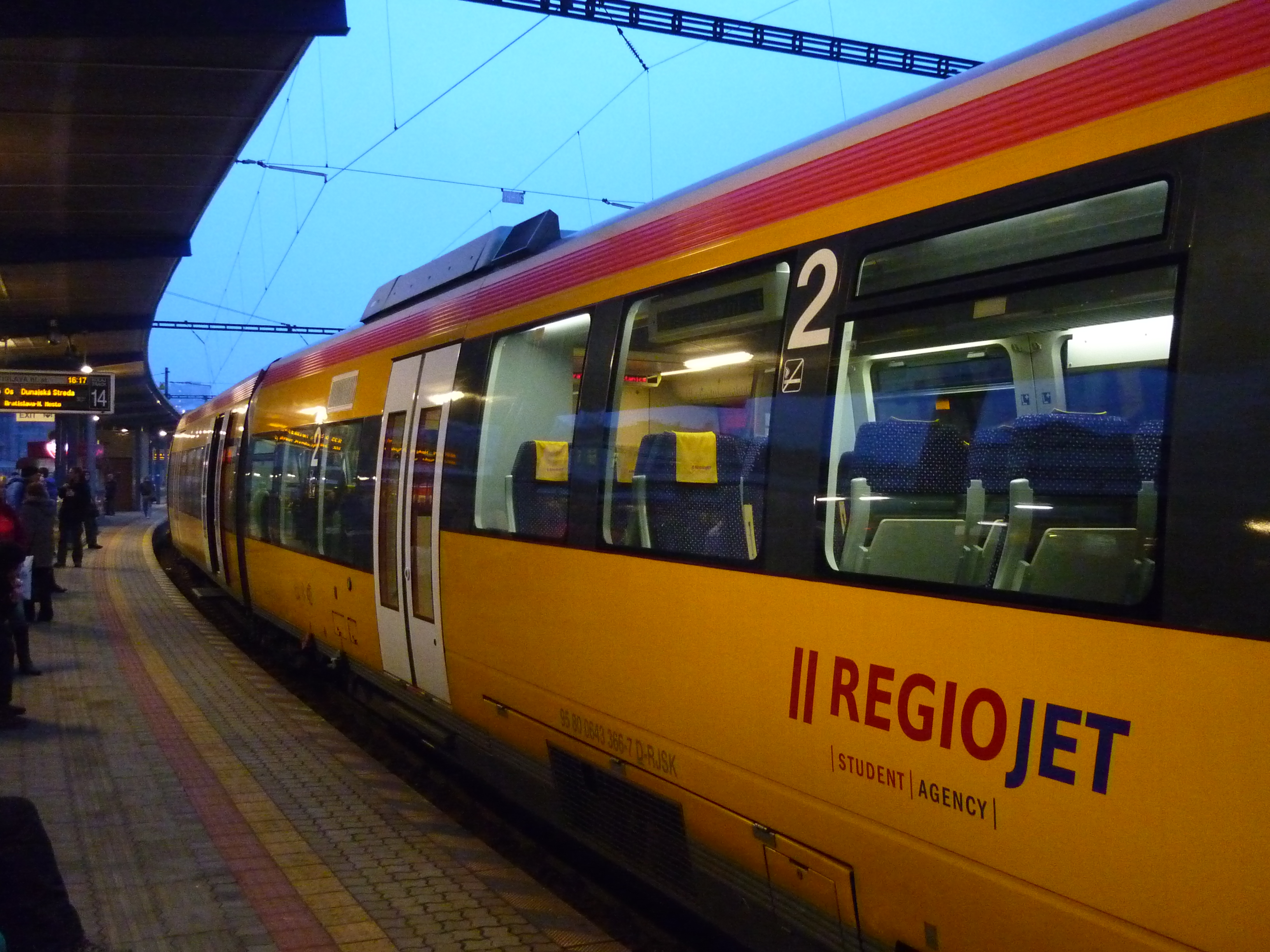 Train unit Bombardier Talent of company RegioJet in Bratislava